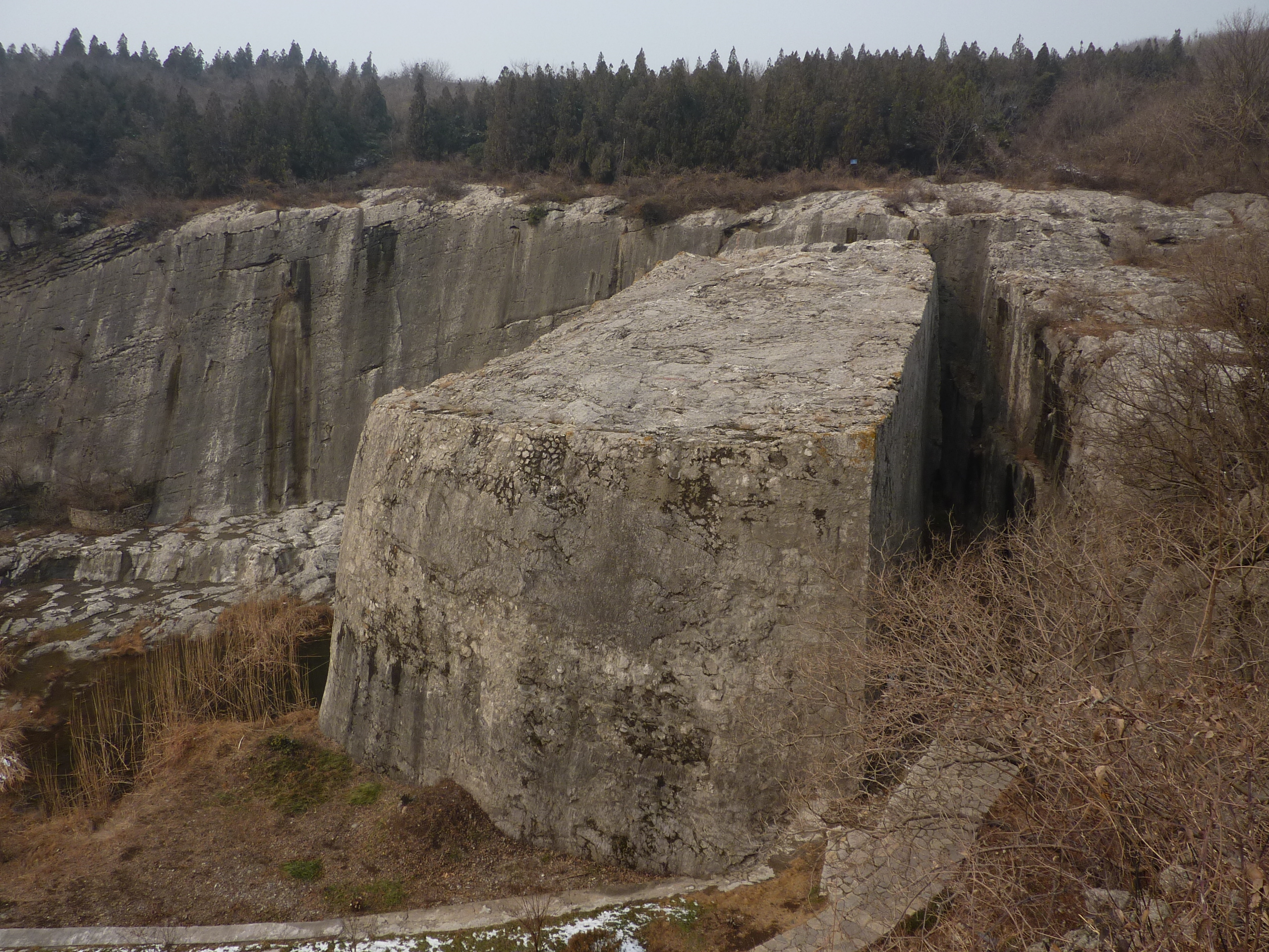 The Monument Base (center) in Yangshan Quarry, separated by a "channel" from the adjacent body of the mountain